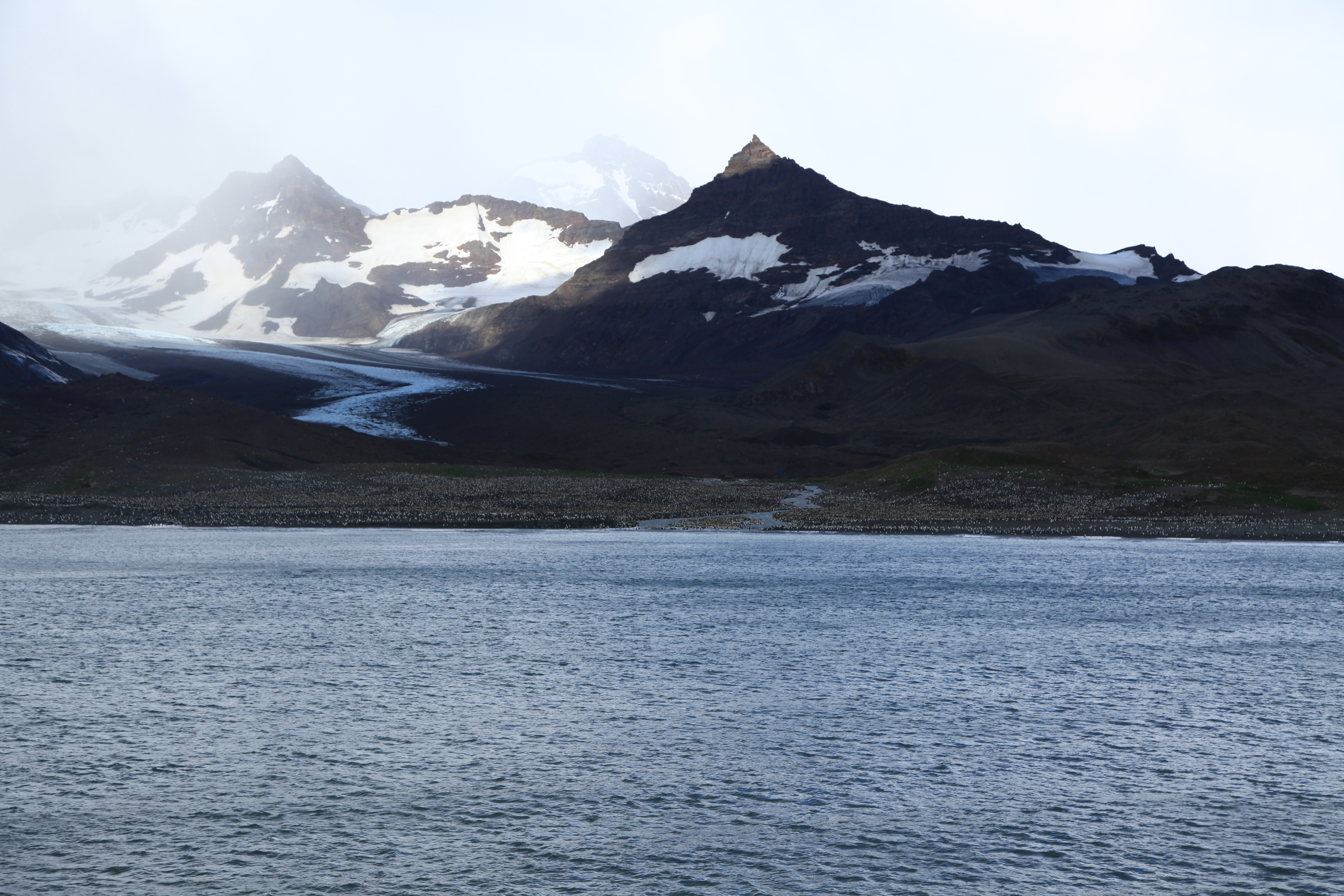 About 100,000 King Penguins line the beach below a retreating glacier at St. Andrews Bay, South Georgia.